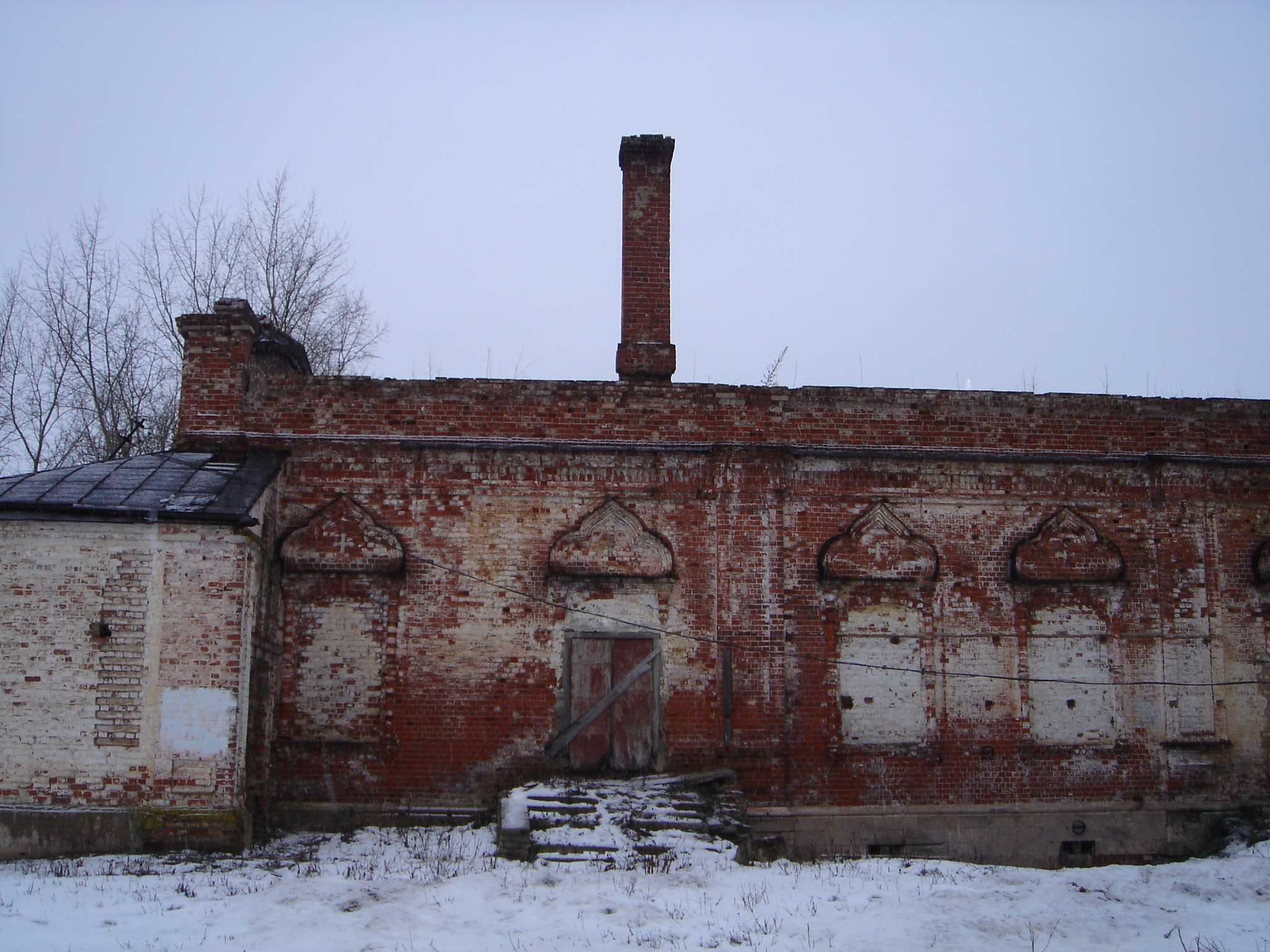 Old Monastery KItchen Building in Suzdal